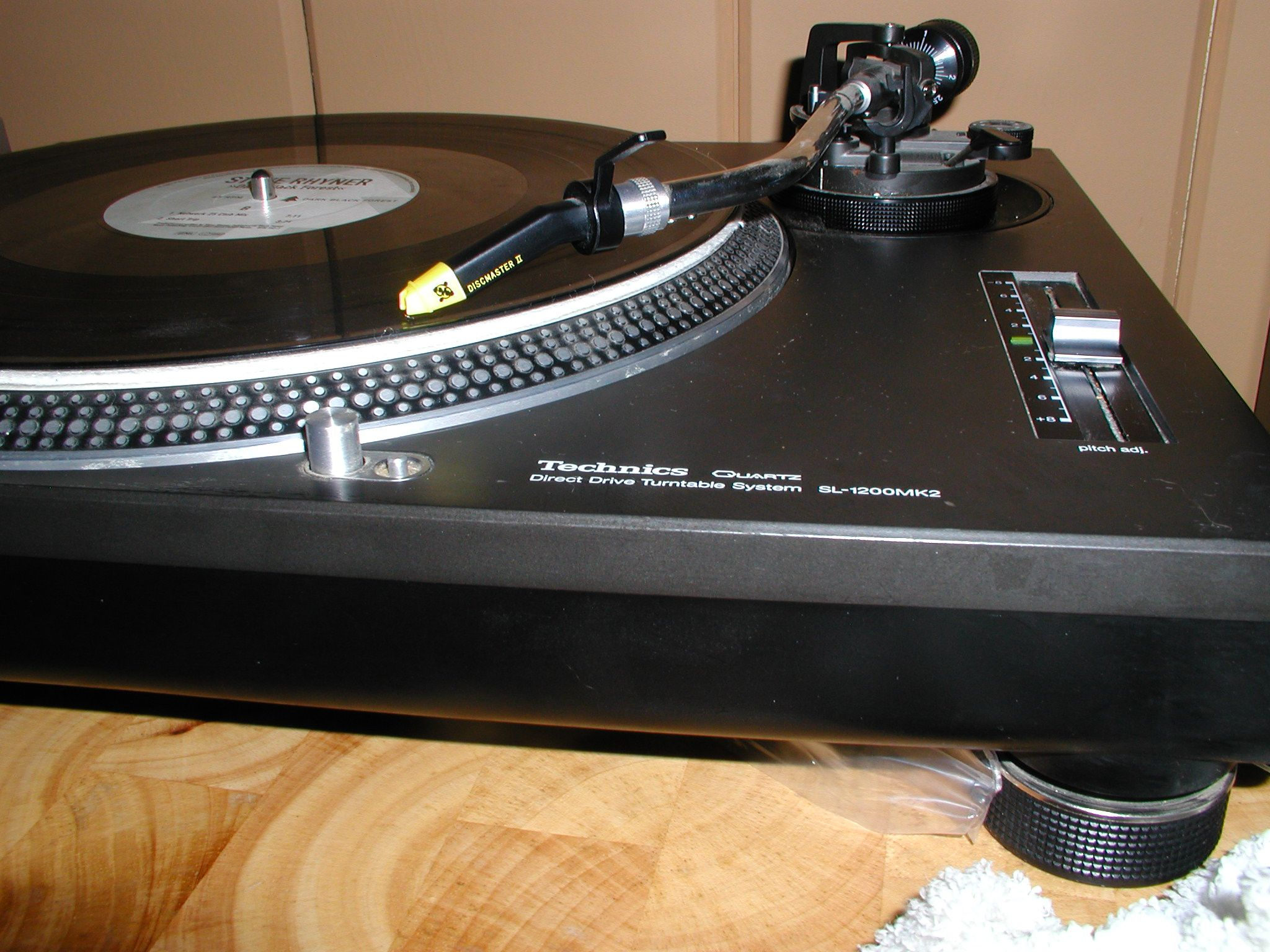 Technics SL-1200MK2 turntable